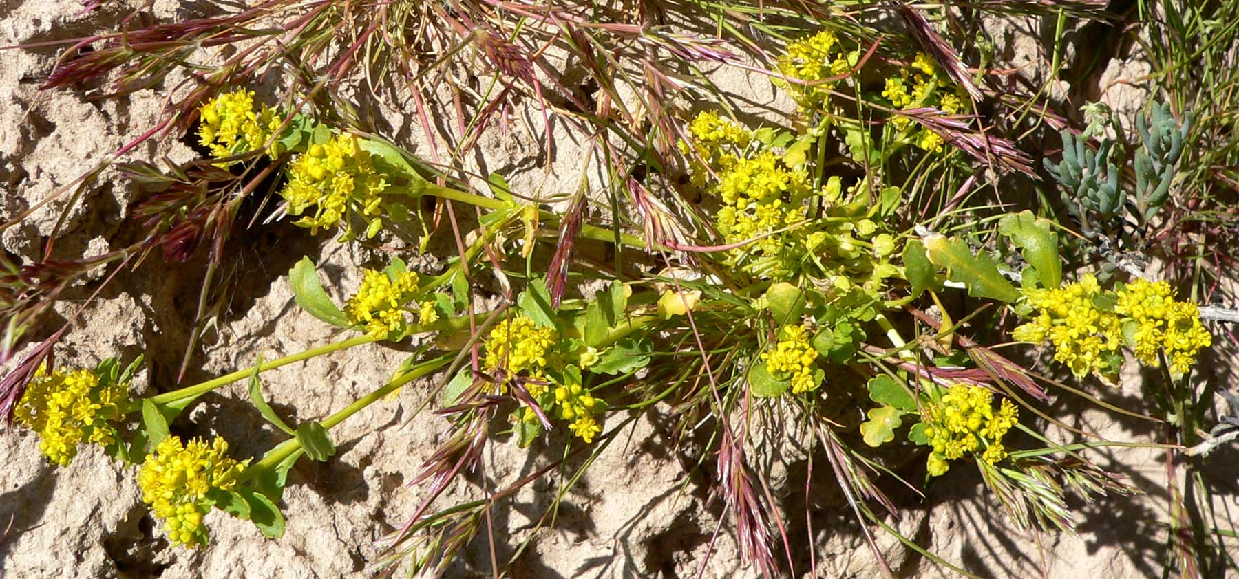 Photo of Lepidium flavum in Chicago Valley, California